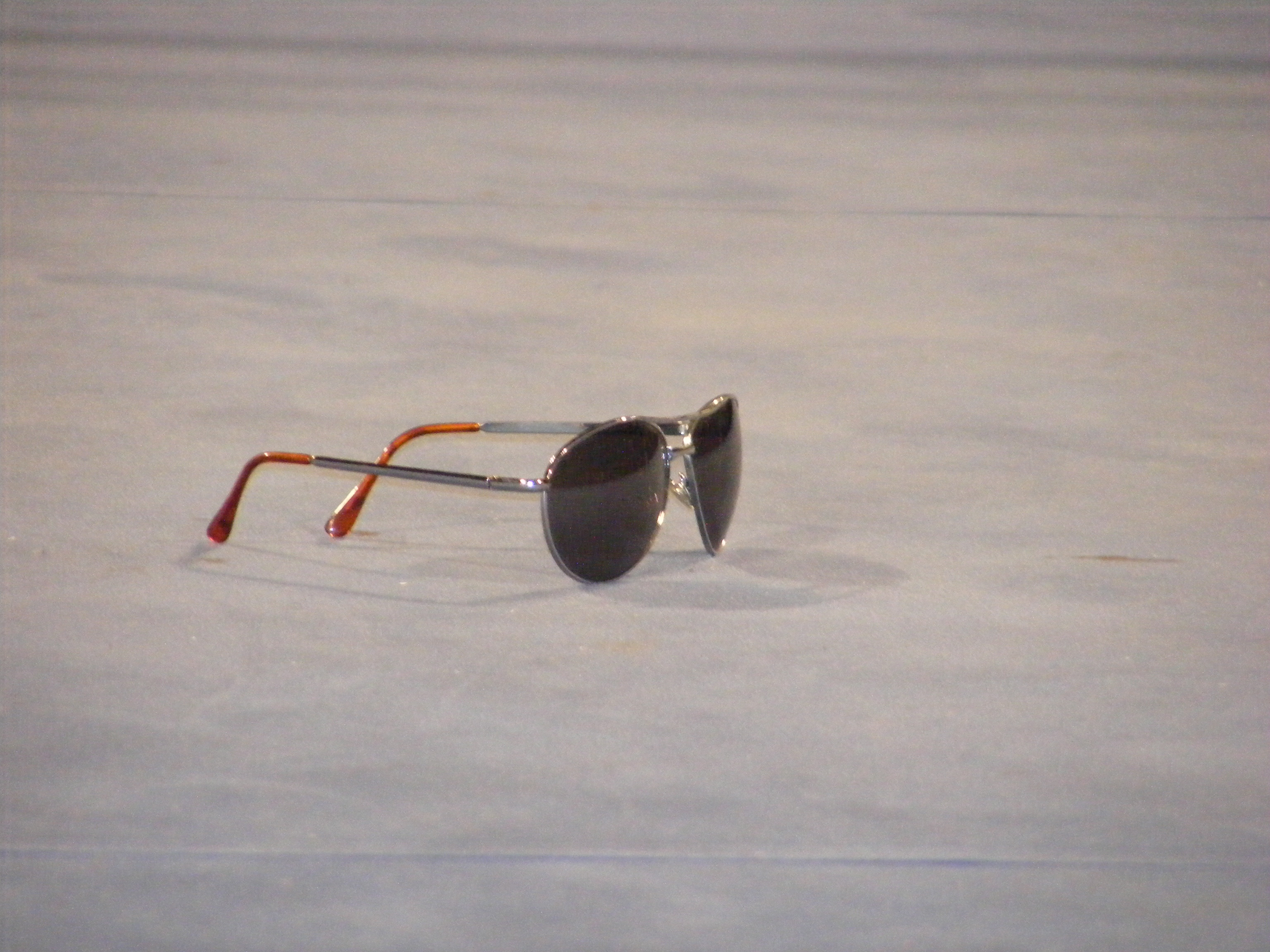 Chikara paying tribute to Alex Whybrow (Larry Sweeney) on April 15, 2011.